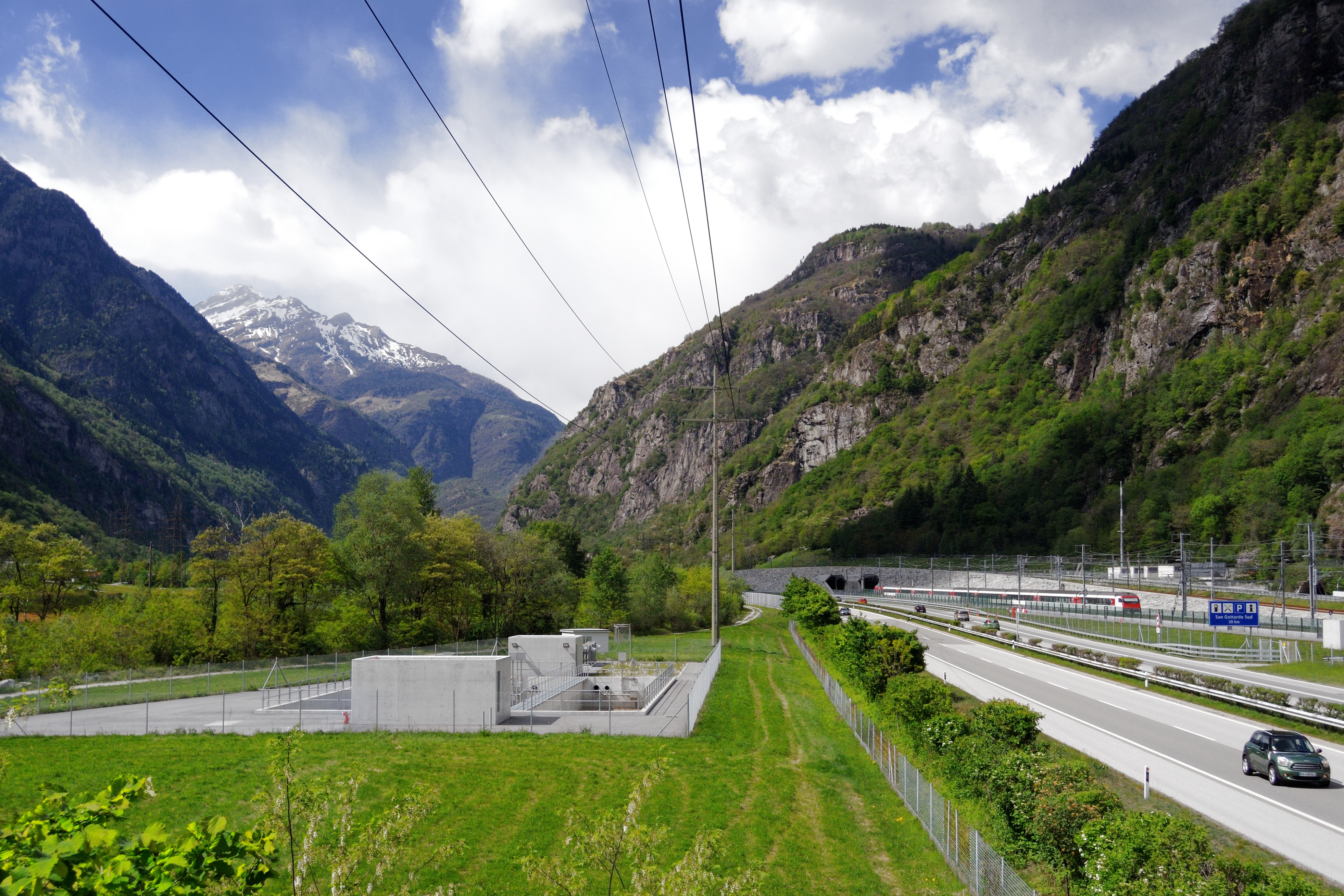 19 April 2017 weather at Pollegio, looking north (southern portal of the Gotthard Base Tunnel). Partly sunny, maximum temperature: ~12°C. This image is part of a series showing the influence of the Alps on European climate.